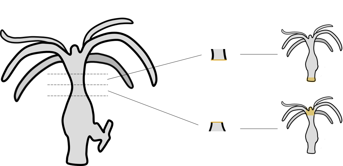 Figure showing how regeneration of Hydra occurs, as well as its polarity